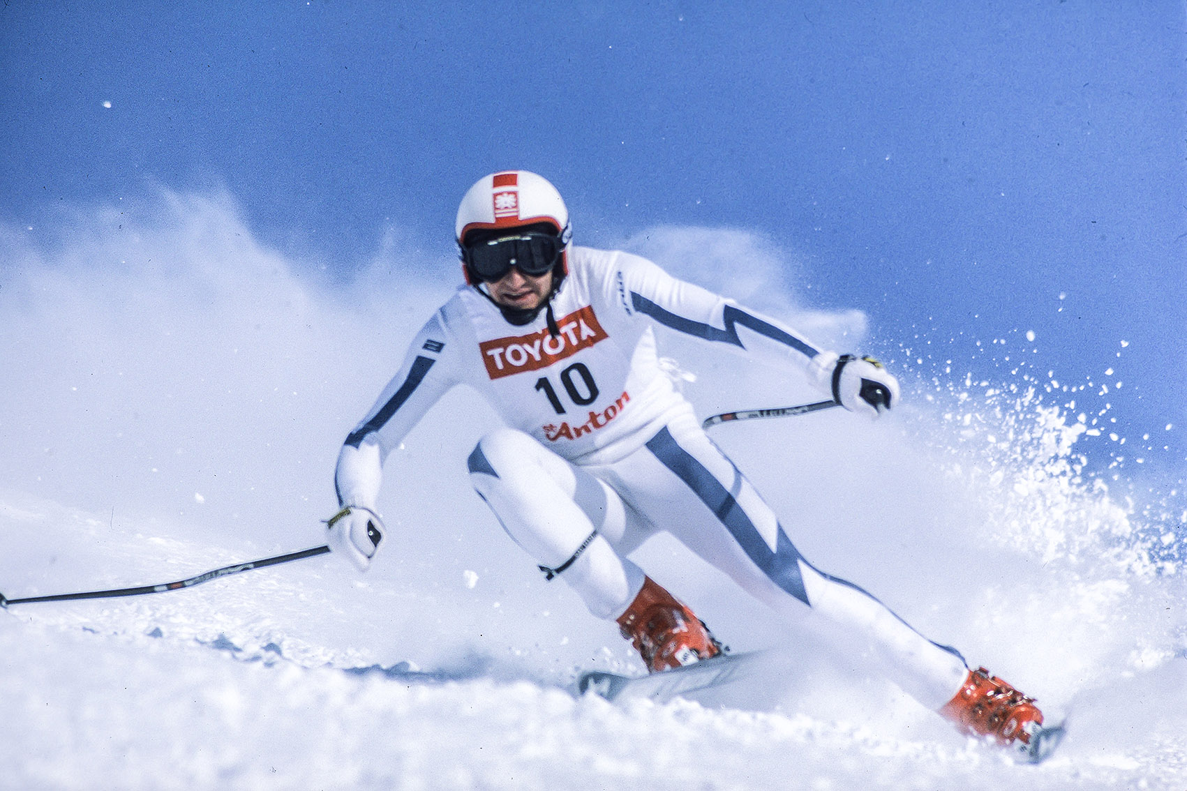 Franz Klammer, Ski World Cup Racer during 1973-1985